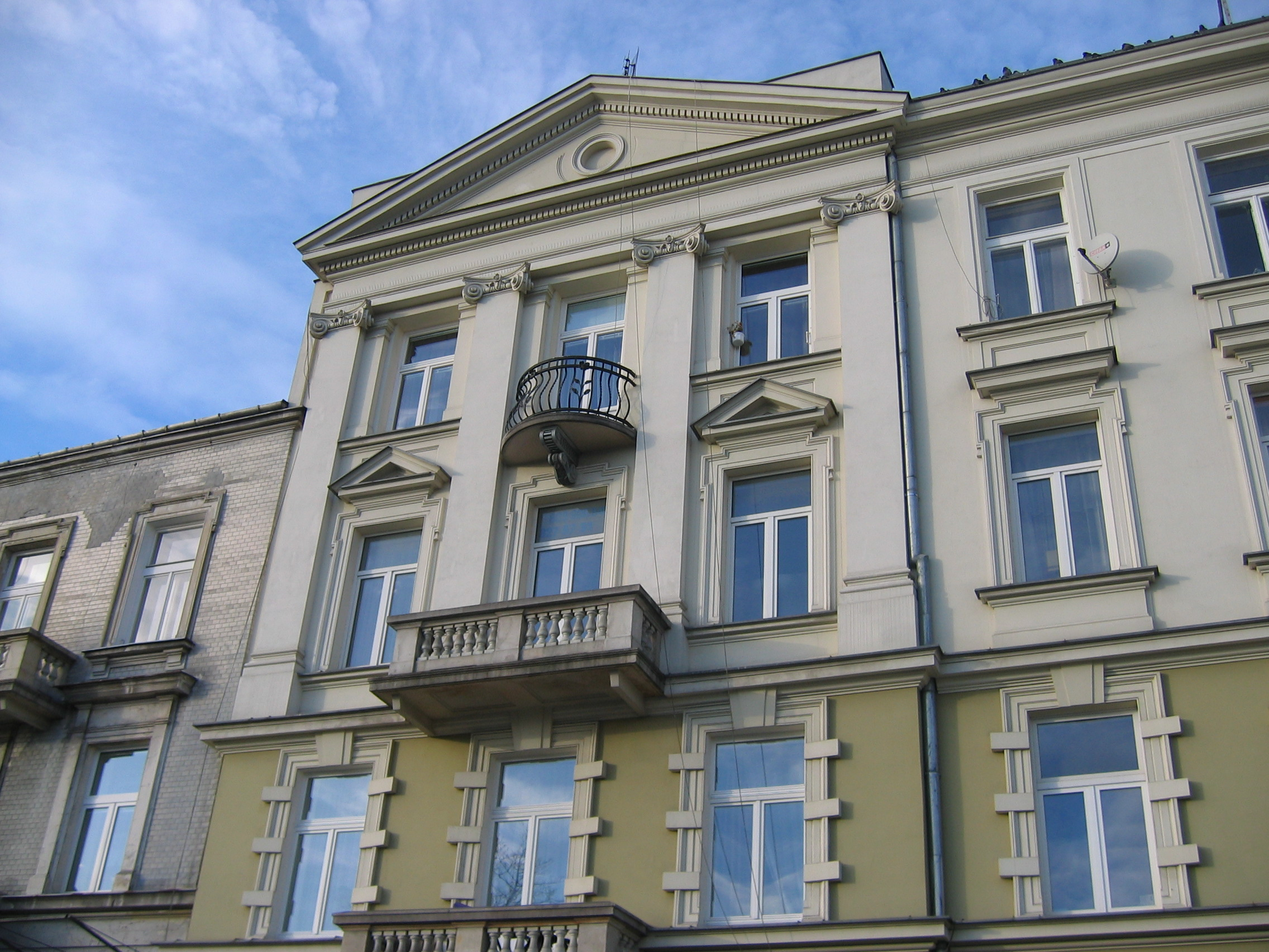 Warsaw, Smolna Street 34